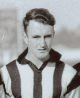 Photograph of Jack Murphy in 1939